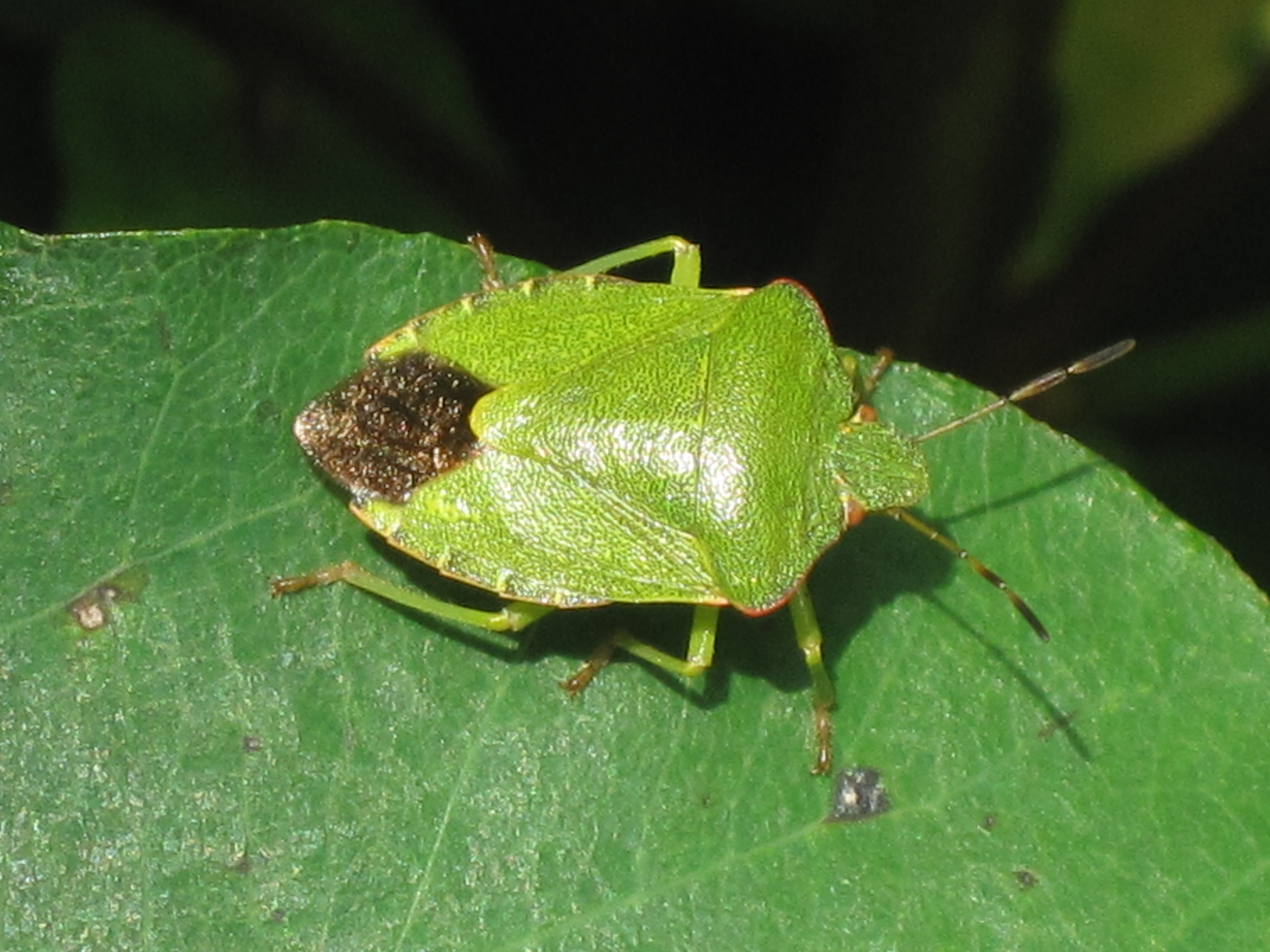 Palomena prasina (Green shield bug) adult, Westenschouwen, the Netherlands